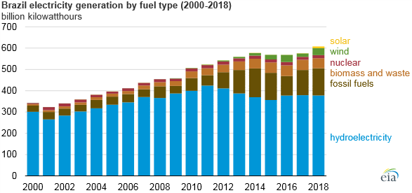 Brazil is the second-largest producer of hydroelectric power in the world, and hydropower accounted for more than 70% of the country’s electricity generation in 2018. Brazil’s latest 10-year energy plan seeks to maintain this level of hydro generation while increasing the share of nonhydro renewables, particularly solar. May 31, 2019